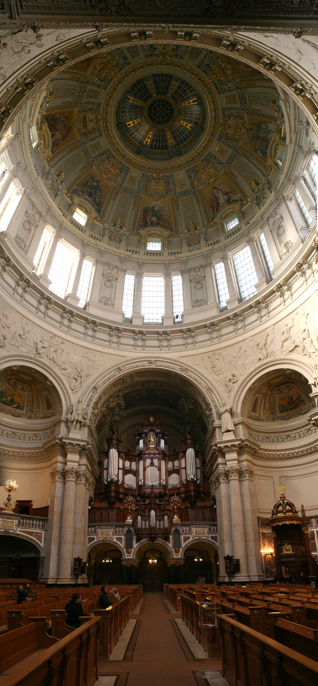 Berliner Dom-Interior, Dome and organ